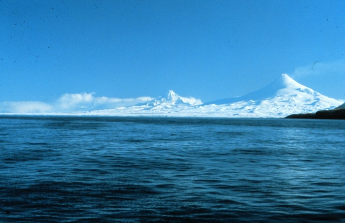 Shishaldin and Isanotski Volcanoes, Unimak Island, Aleutian Islands, Alaska